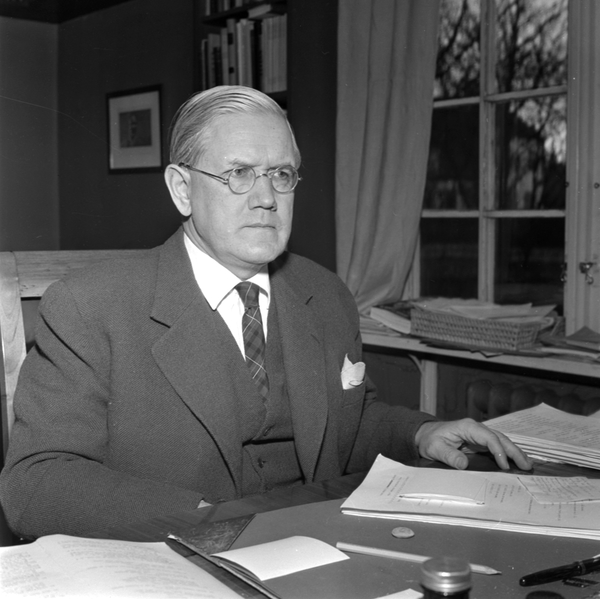 Swedish professor and translator Björn Collinder (1894-1983)